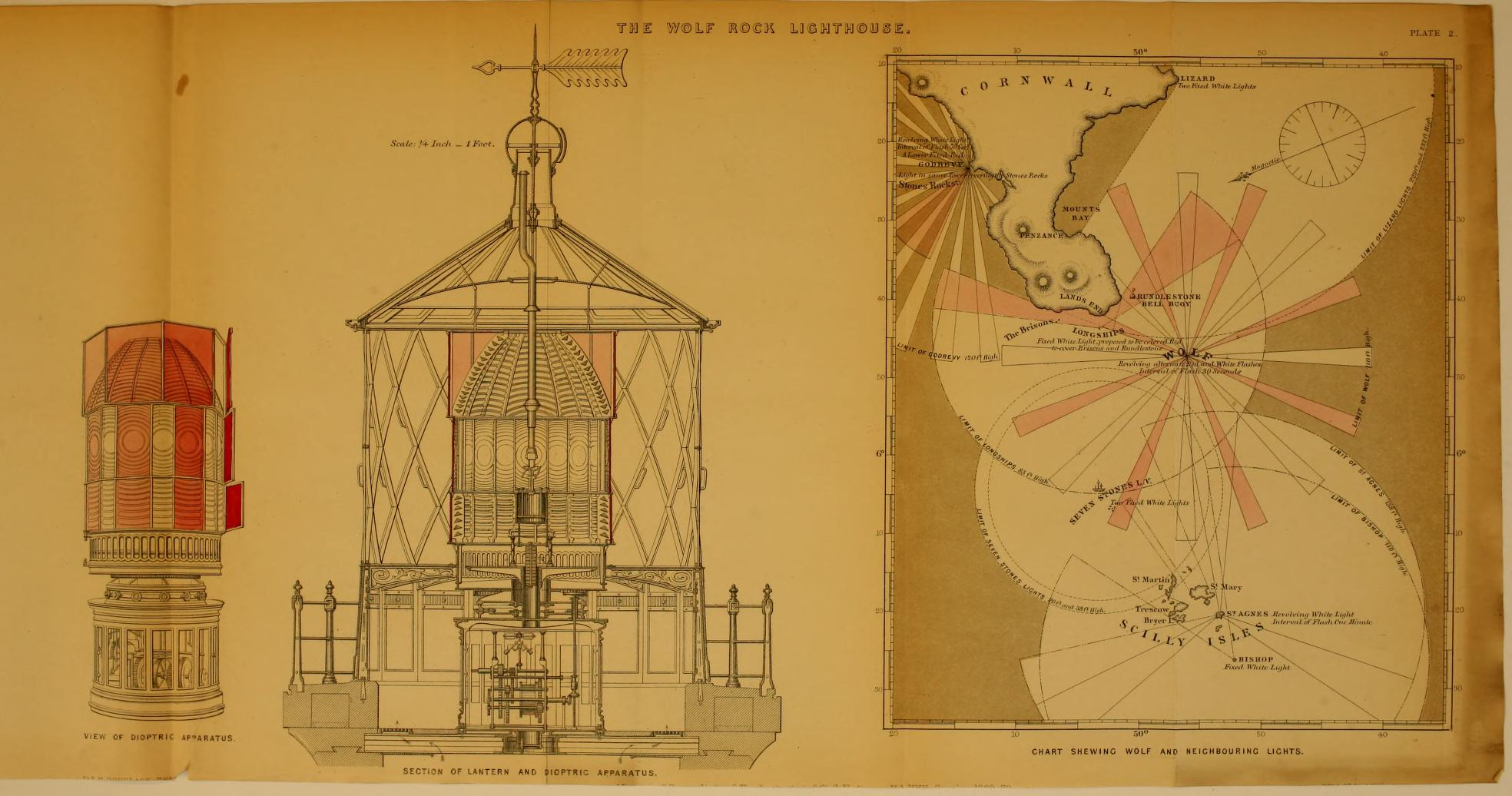 Engineering drawing of the 1869 optic, and sectional view of it within the 1869 lantern, of Wolf Rock Lighthouse (UK), showing its innovative method of flashing alternately white and red; adjacent chart shows its interaction with other nearby lights off the Cornish coast. Part of a presentation by the chief engineer of Trinity House, James Douglass, to the Institute of Civil Engineers.